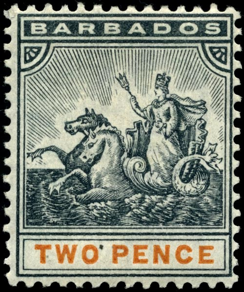 Barbados 2p stamp of 1899